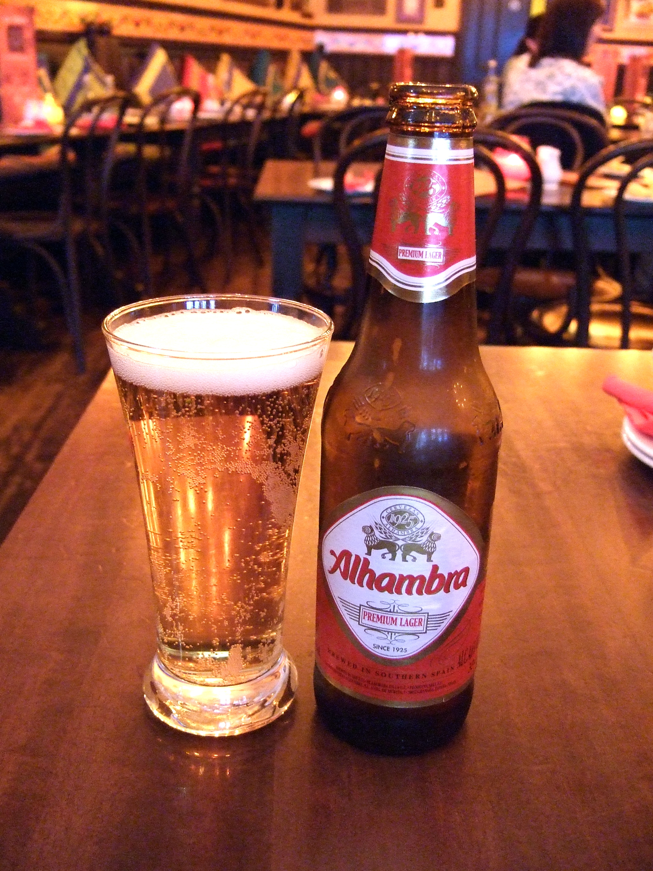 Spanish lager beer Alhambra.